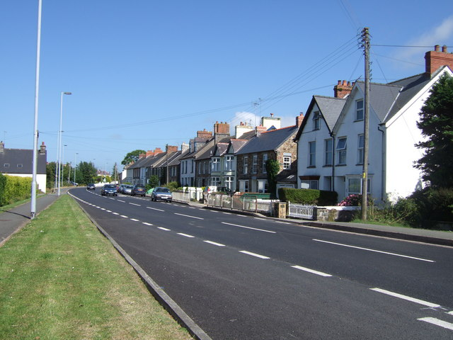 Houses along the A487 in the village of Dinas Cross. Many of the detached houses here were built by sea captains for their retirement. Nowadays the busy trunk road bisects the village and there have been several campaigns to reduce the speed limit.